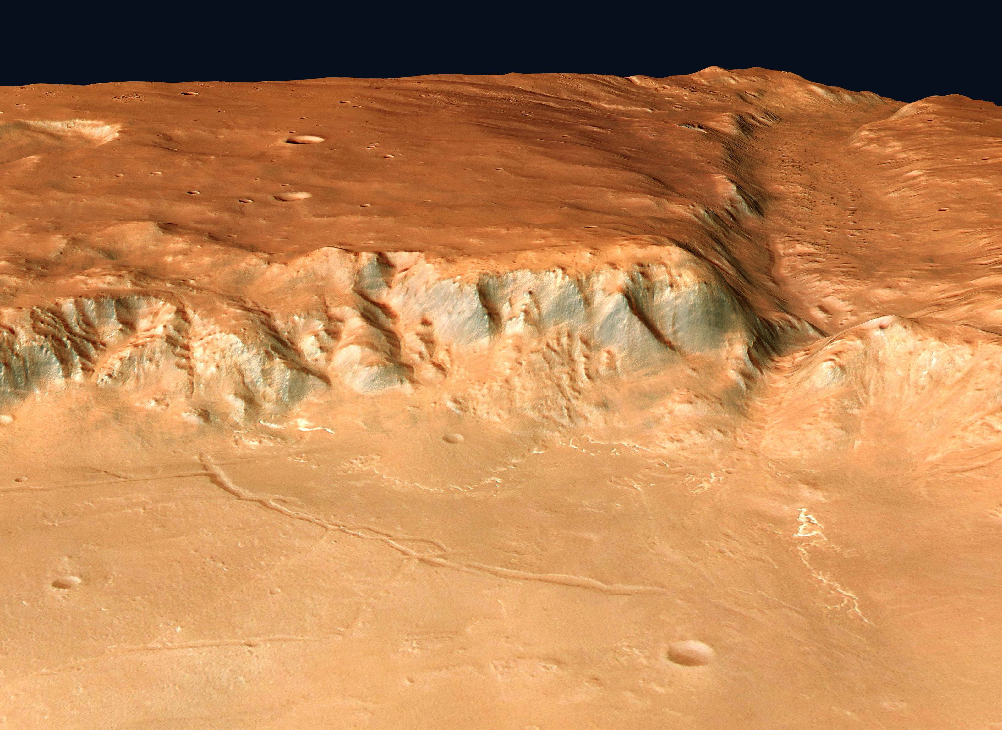 Computer-generated perspective view of the crater Holden and Uzboi Vallis. It is based on images from the the HRSC instrument aboard Mars Express.